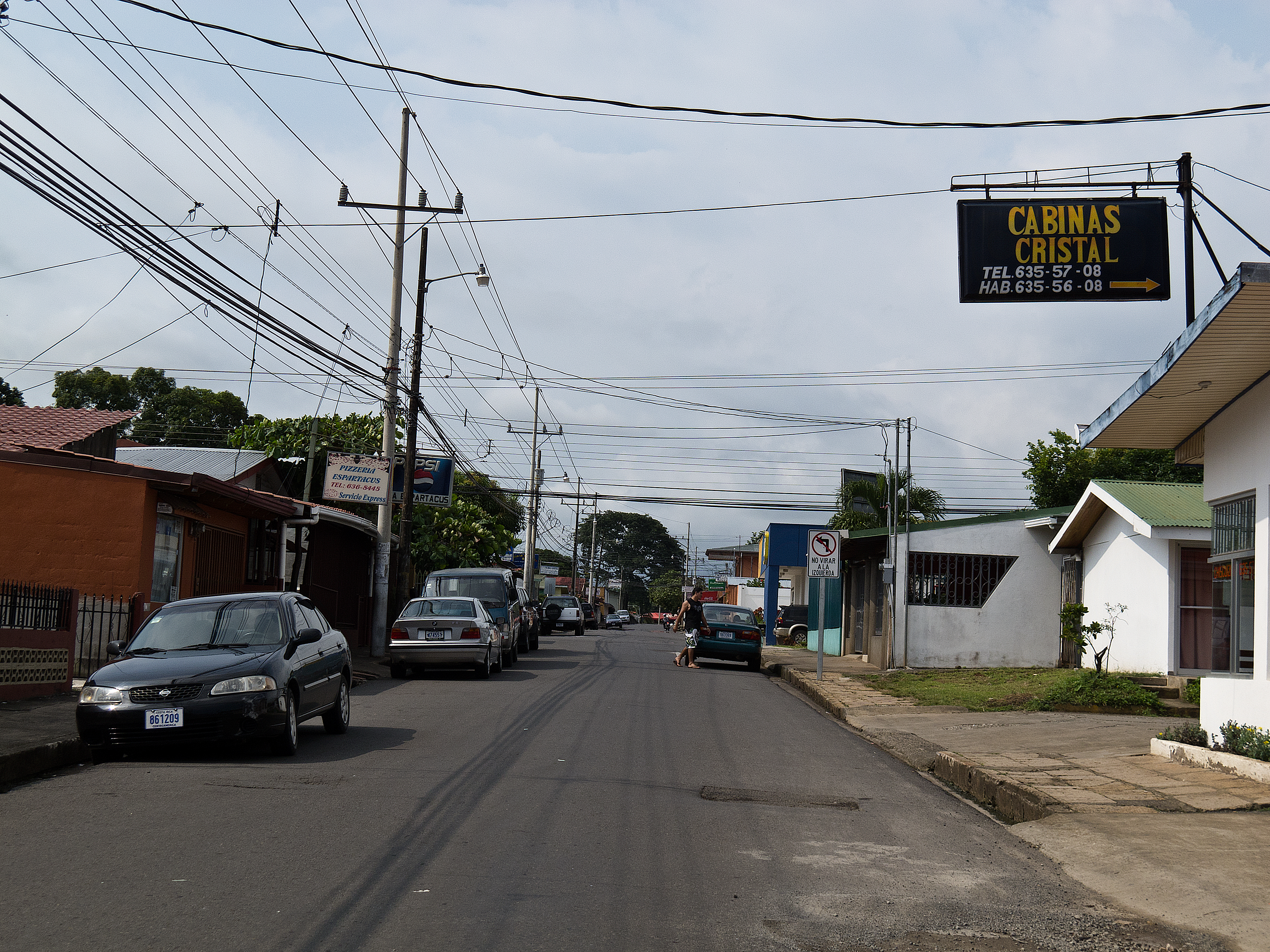 Street in Esparza, Costa Rica